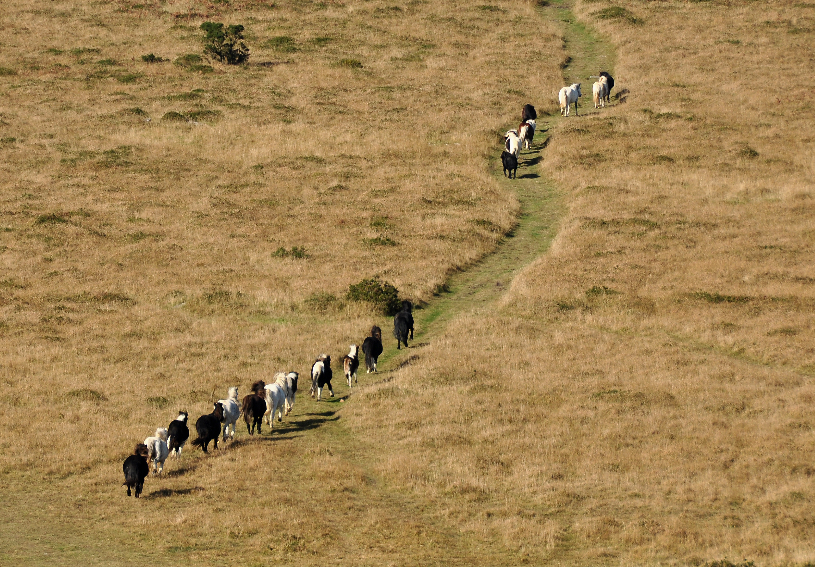 A herd of ponies on Whitchurch Common, Dartmoor. The ponies are following a track up the hill.